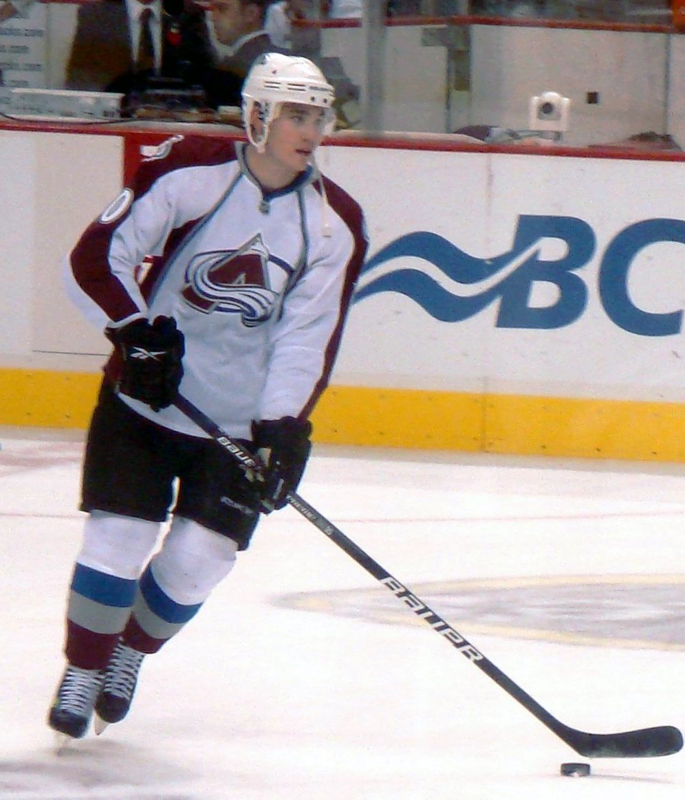 Colorado Avlanche defenceman Kyle Cumiskey in a game against the Vancouver Canucks in Vancouver, British Columbia, on November 1, 2009.